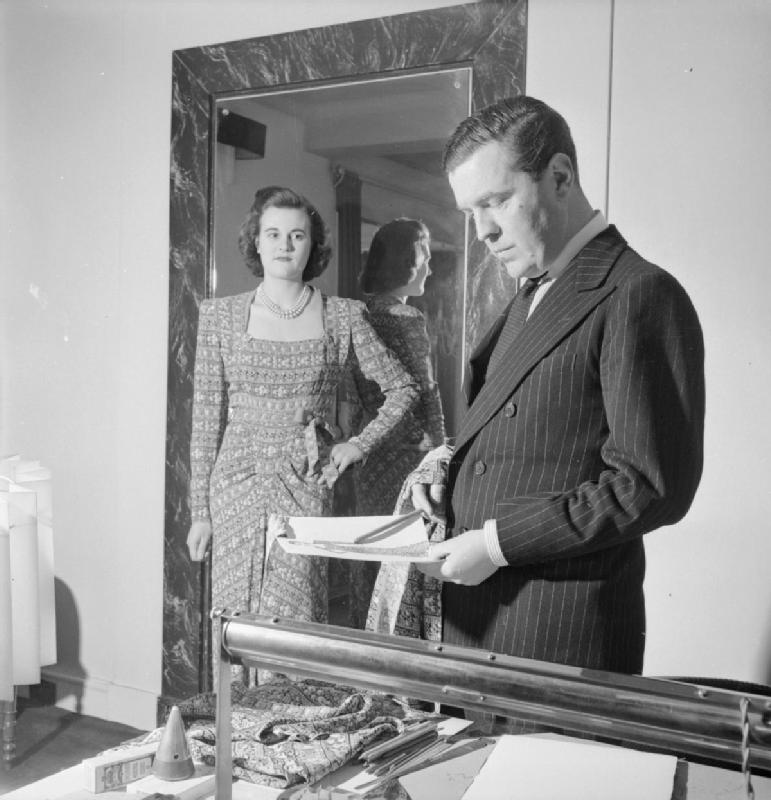 London Fashion Designers- the work of Members of the Incorporated Society of London Fashion Designers in Wartime, London, England, UK, 1944 In his London office, fashion designer Norman Hartnell compares his original sketch and fabric sample to the finished garment, worn by a model, which has just been completed in his workrooms. The dress is made from a jewel print fabric, which he designed.